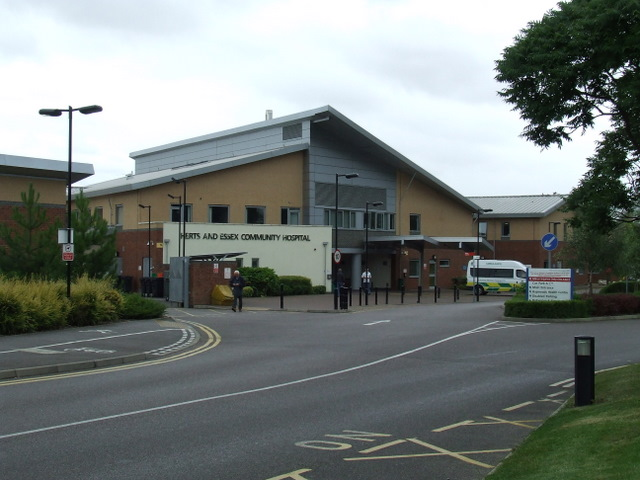 Herts and Essex Community Hospital Appears to be recently opened.